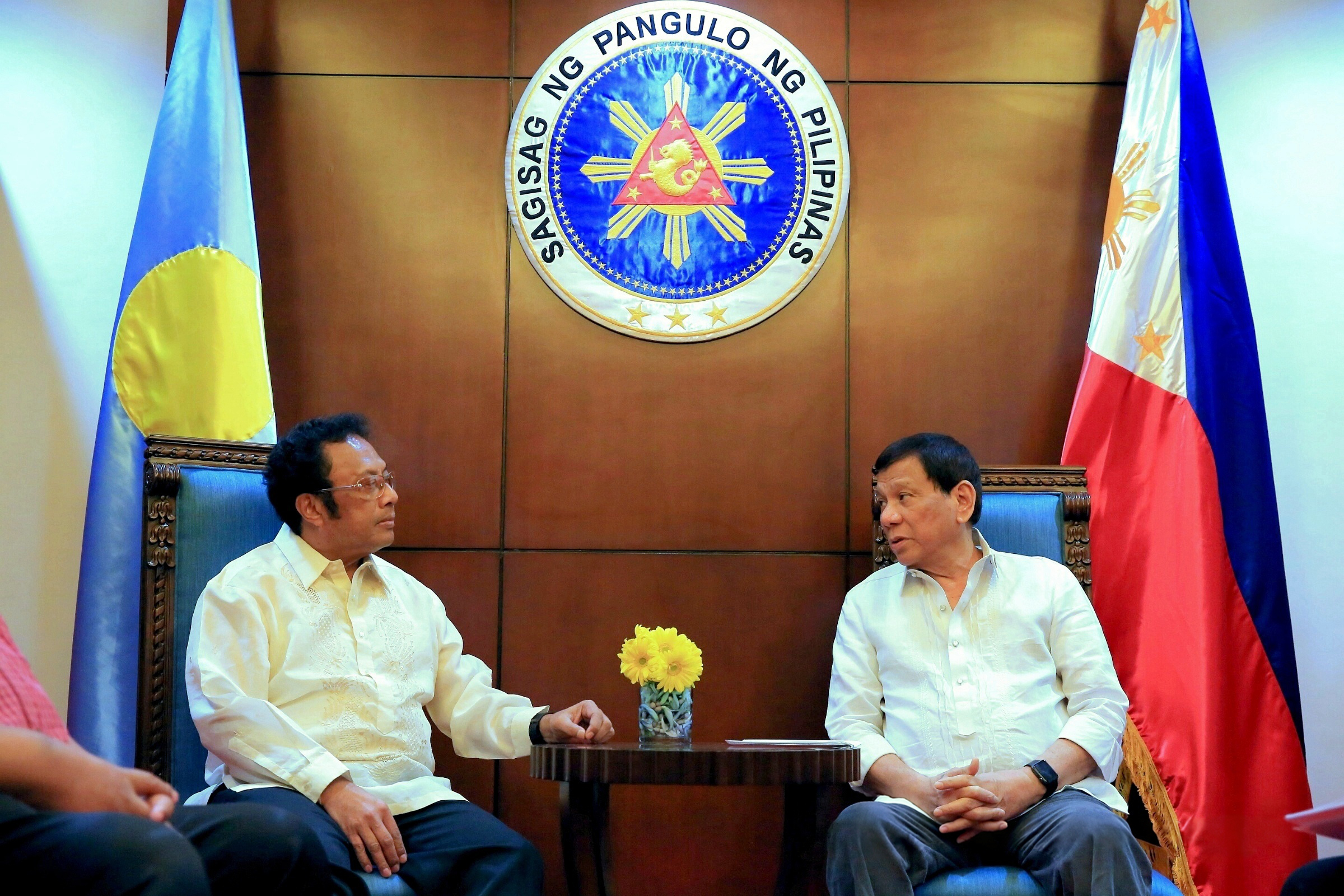 President Rodrigo R. Duterte discusses matters with Republic of Palau President Thomas Remengesau who paid a courtesy call on the President at the Presidential Guest House in Davao City on Feb. 15, 2018.